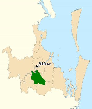 This image incorporates data that is: © Commonwealth of Australia (Australian Electoral Commission) 2009 Division of Moreton 2010